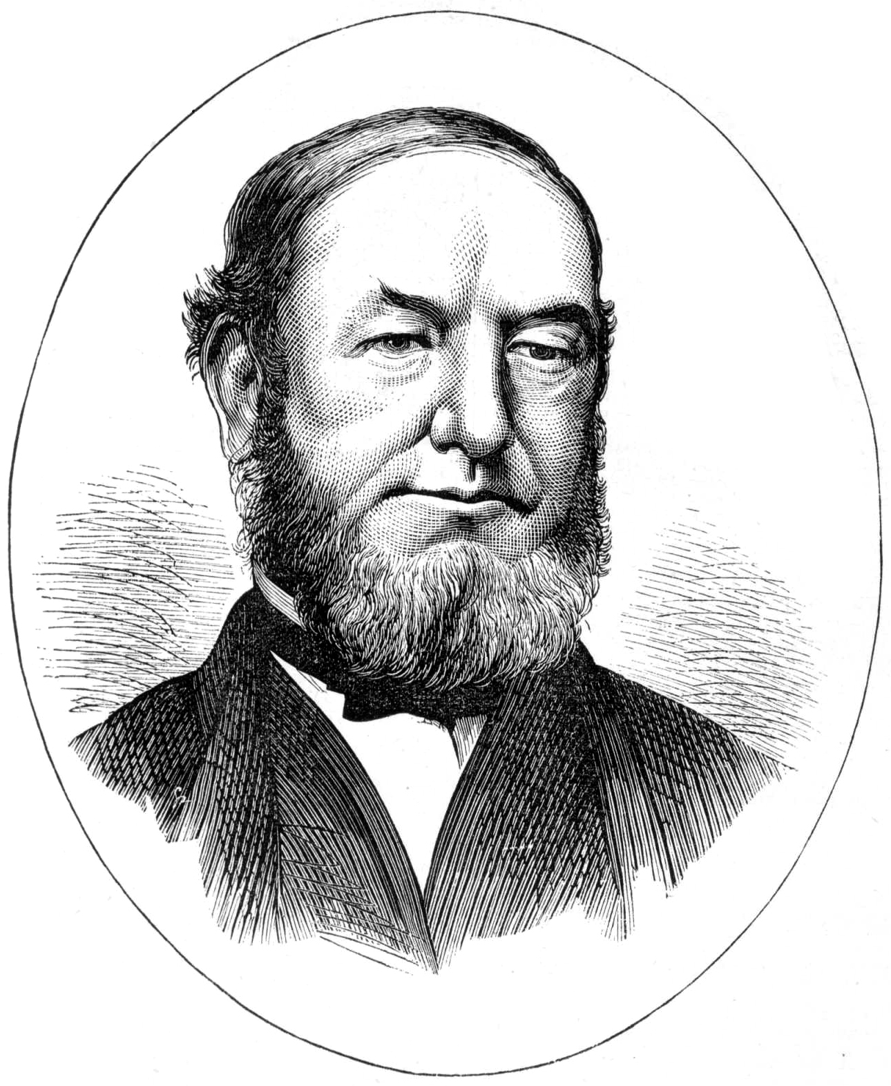 Portrait of William Jones (1809–1873), one of the leaders of the Newport Rising